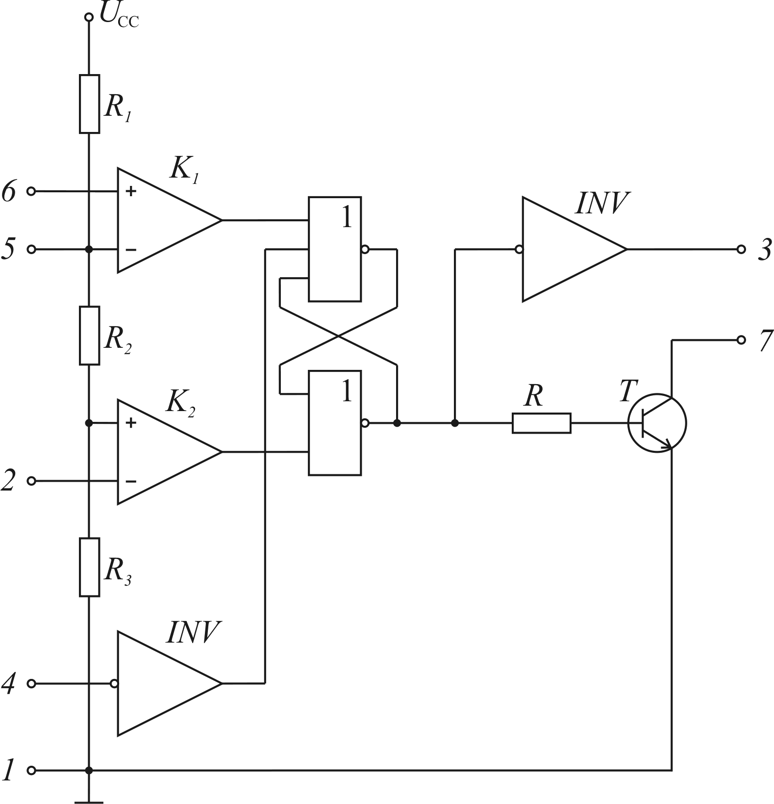 Circuit of NE555